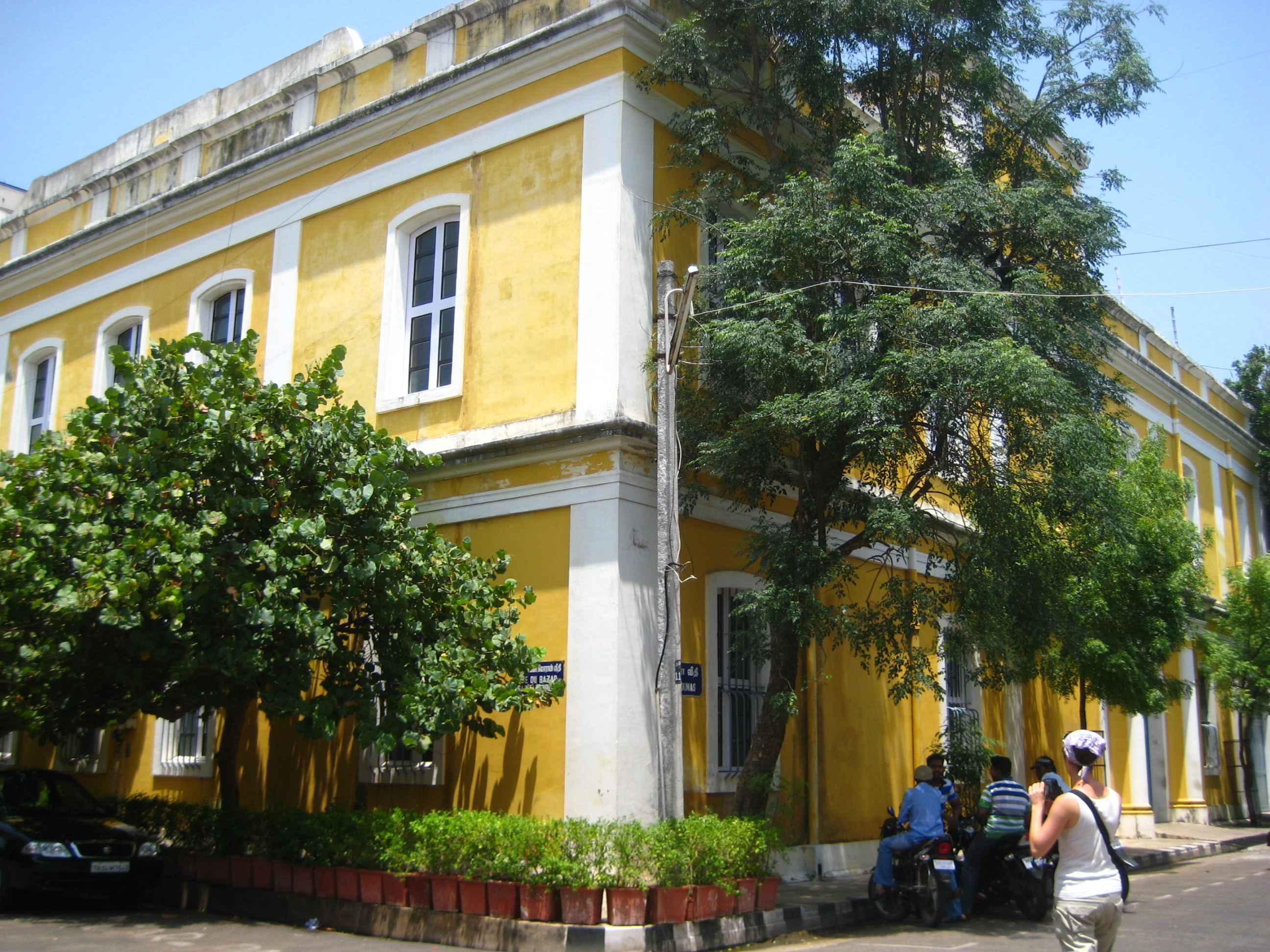 Building of the Ecole Française d'Extrème Orient in Puducherry (Pondicherry), India located at Dumas Street / Bazaar Saint Laurent Street corner in the French Quarter.